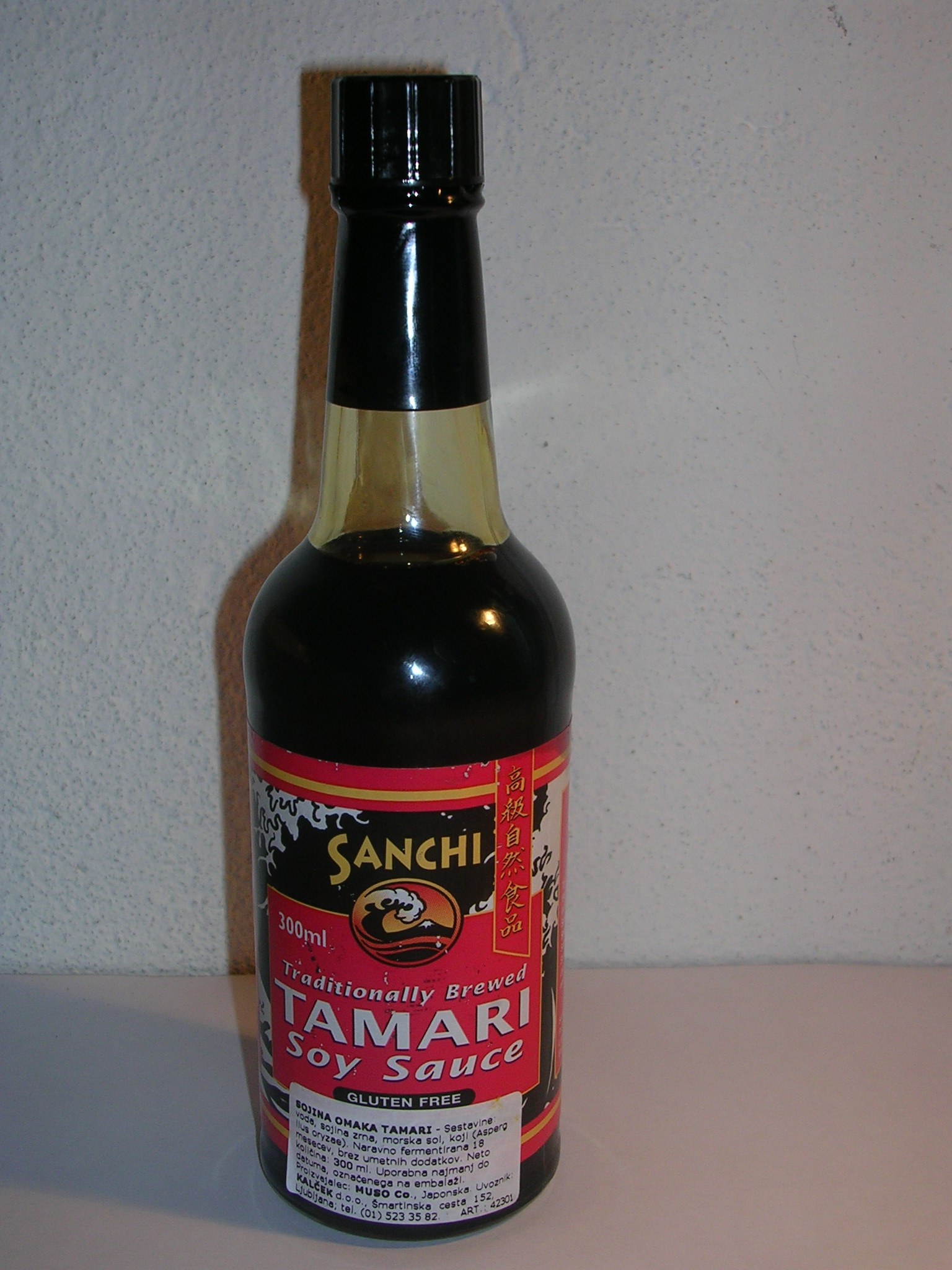 Tamari, soy sauce